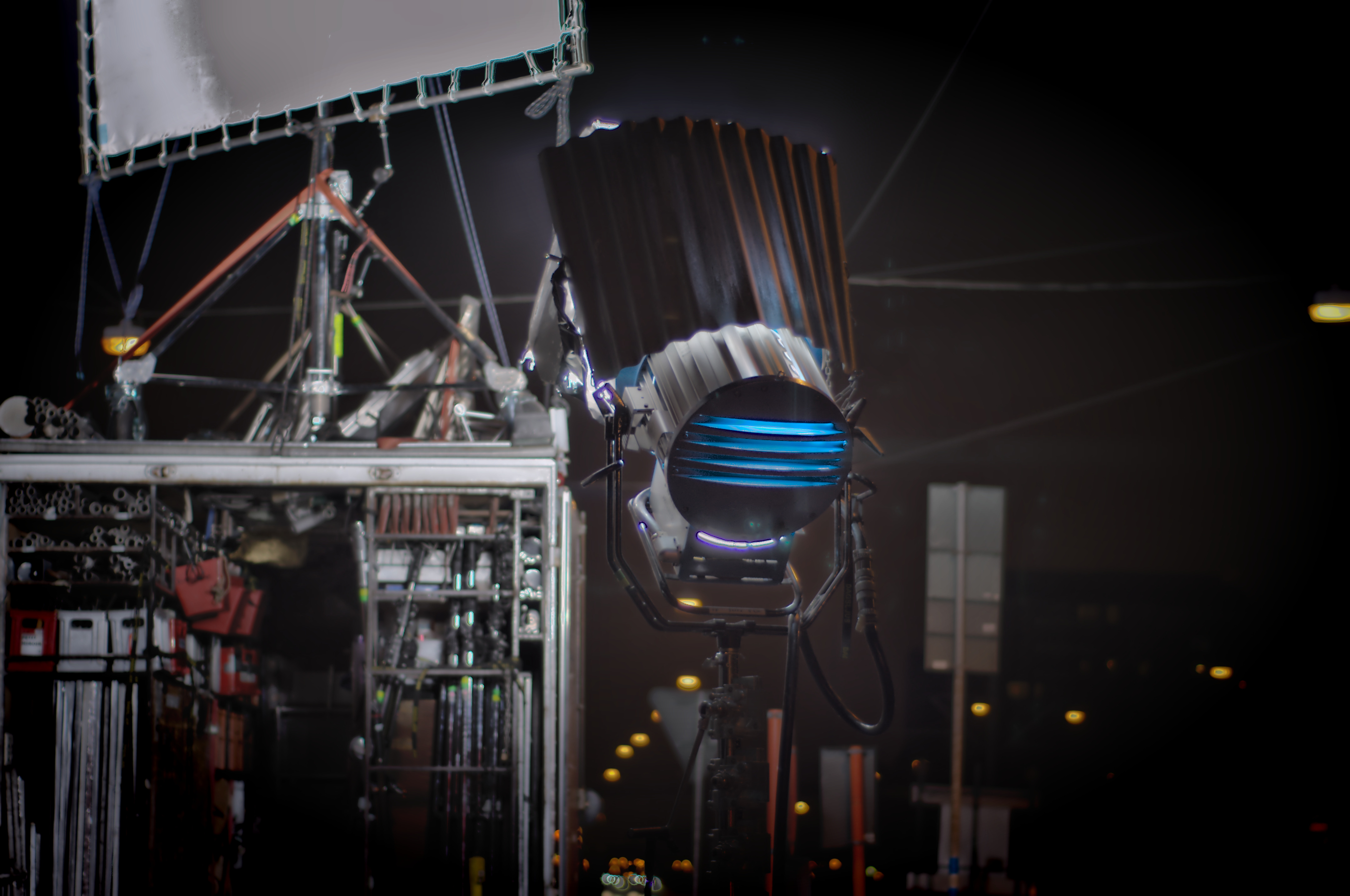 View On Black HDR / ISO 100 / 5 exposures A huge reflector used to light up an alley at Lundby Sjukhus. Processed in Photomatix and Lightroom.